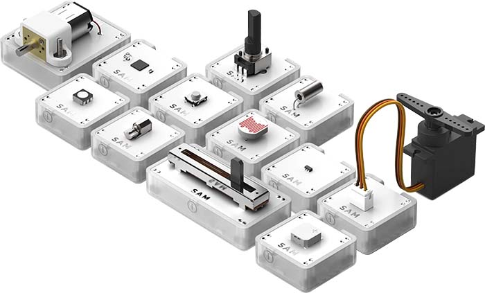 Hardware modules from the SAMily